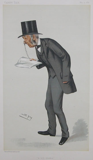 Caricature of Lewis Llewelyn Dillwyn M.P.. Caption read "a wet Quaker".